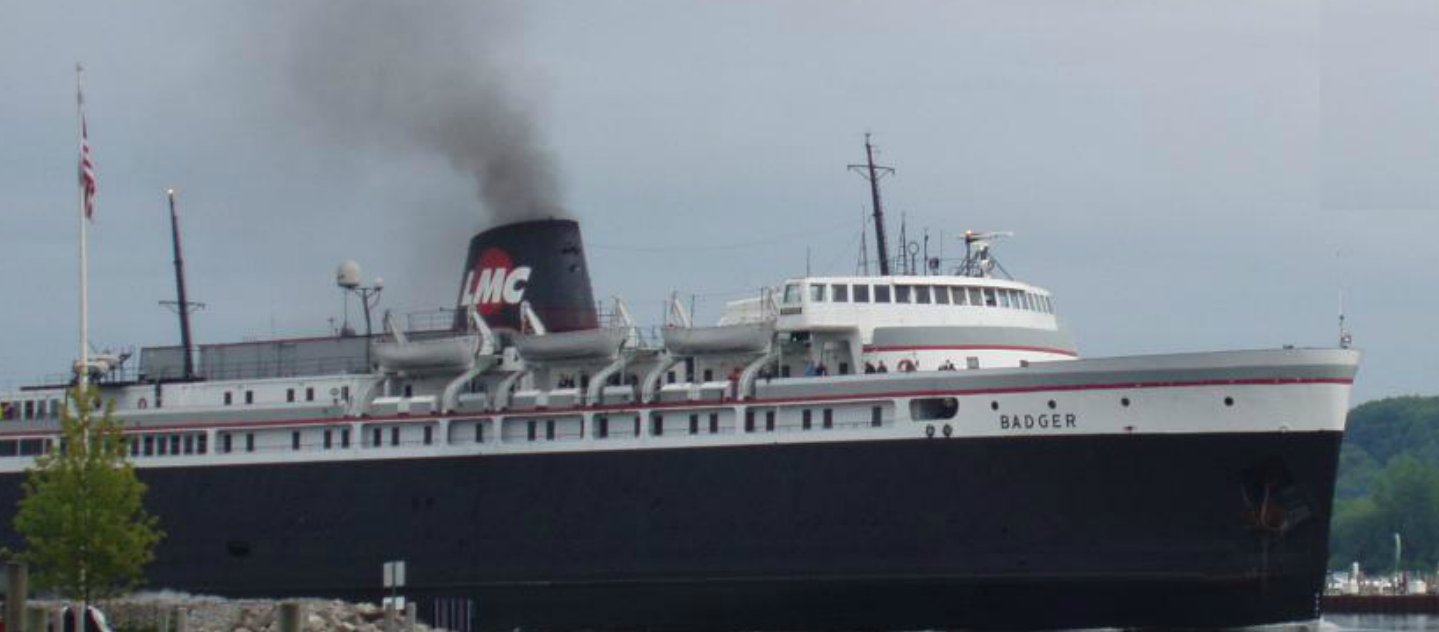 close up of SS Badger Ludington